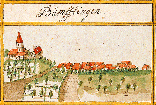 View of Bempflingen from the forest register books created by Andreas Kieser